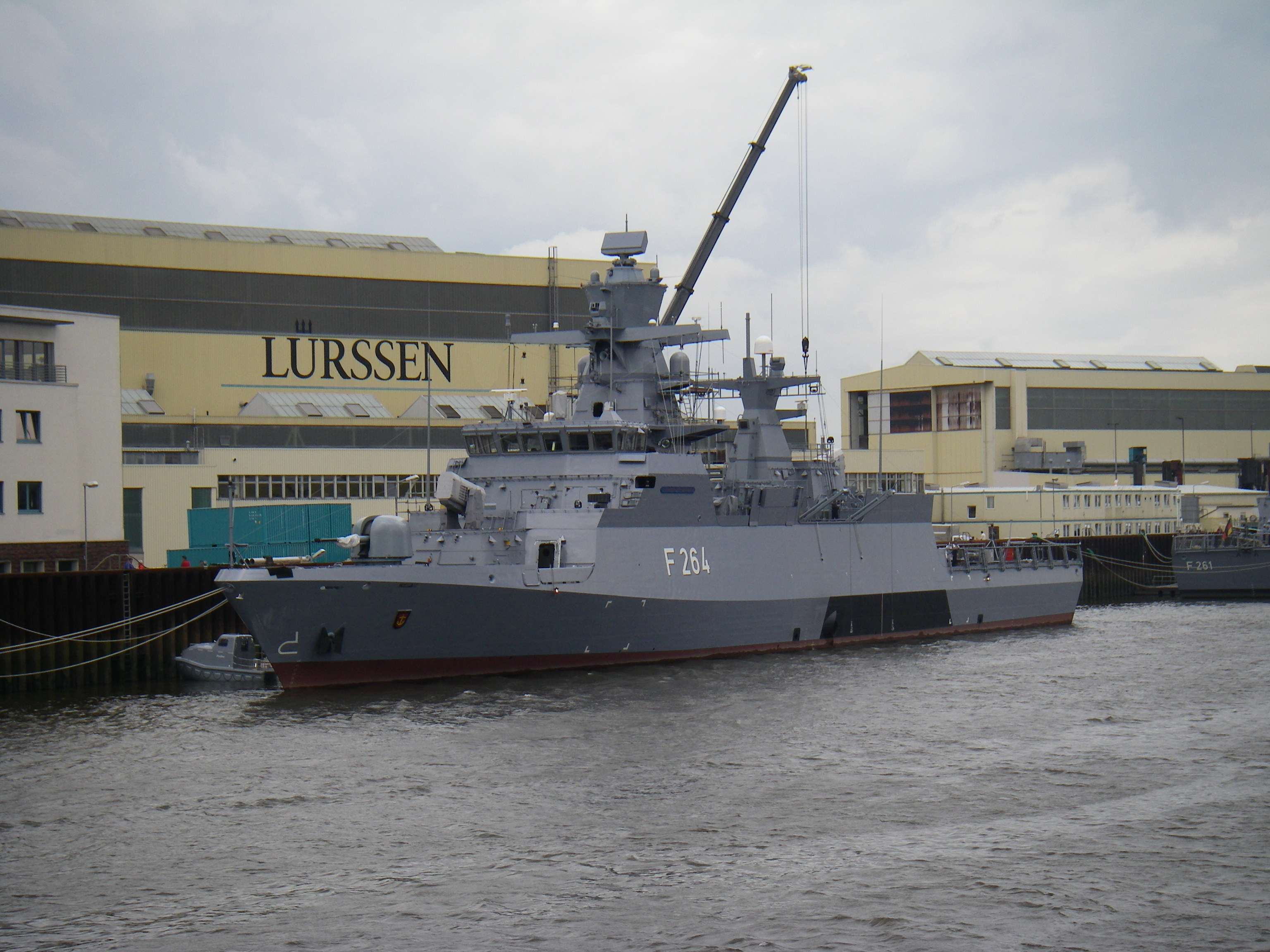 Korvette LUDWIGSHAFEN AM RHEIN (Klasse 130) bei der Fr. Lürssen Werft GmbH & Co. KG in Lemwerder